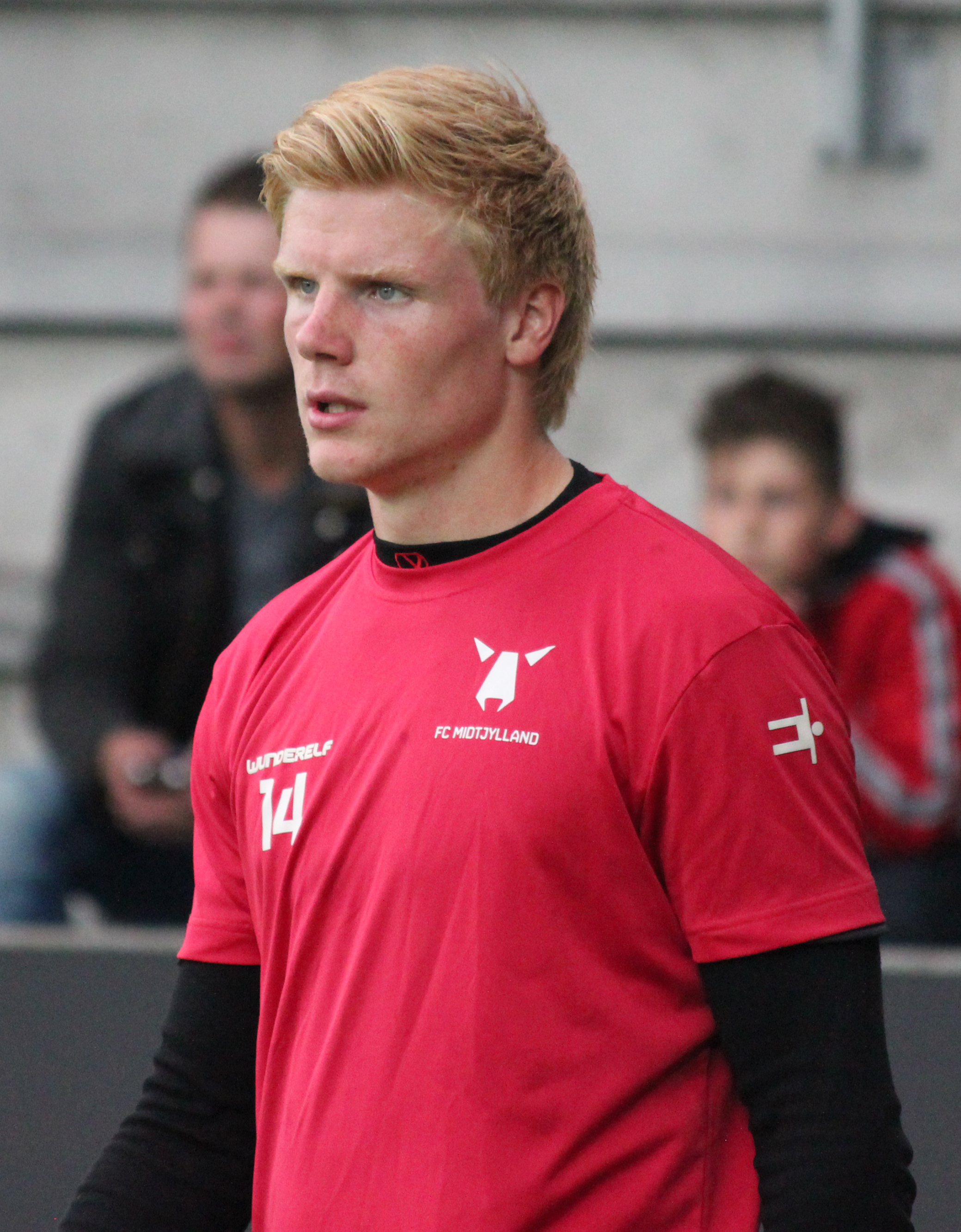 Jakob Haugaard varmer op før FCM-FCK 28. juli 2013